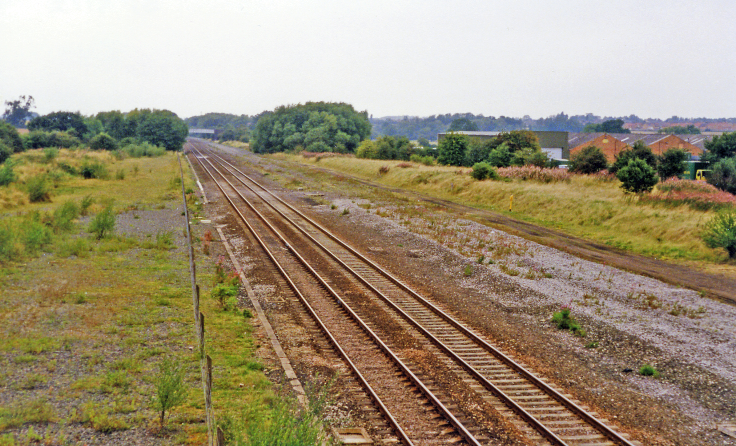 Site of Finedon station, 1993. View northward, towards Kettering and the North: ex-Midland main line from London St Pancras. The station was closed to passengers in the War (2/12/40), to goods from 6/7/64. This was one of the busiest sections of the Midland main line, with four tracks as far as Kettering until about 1970.